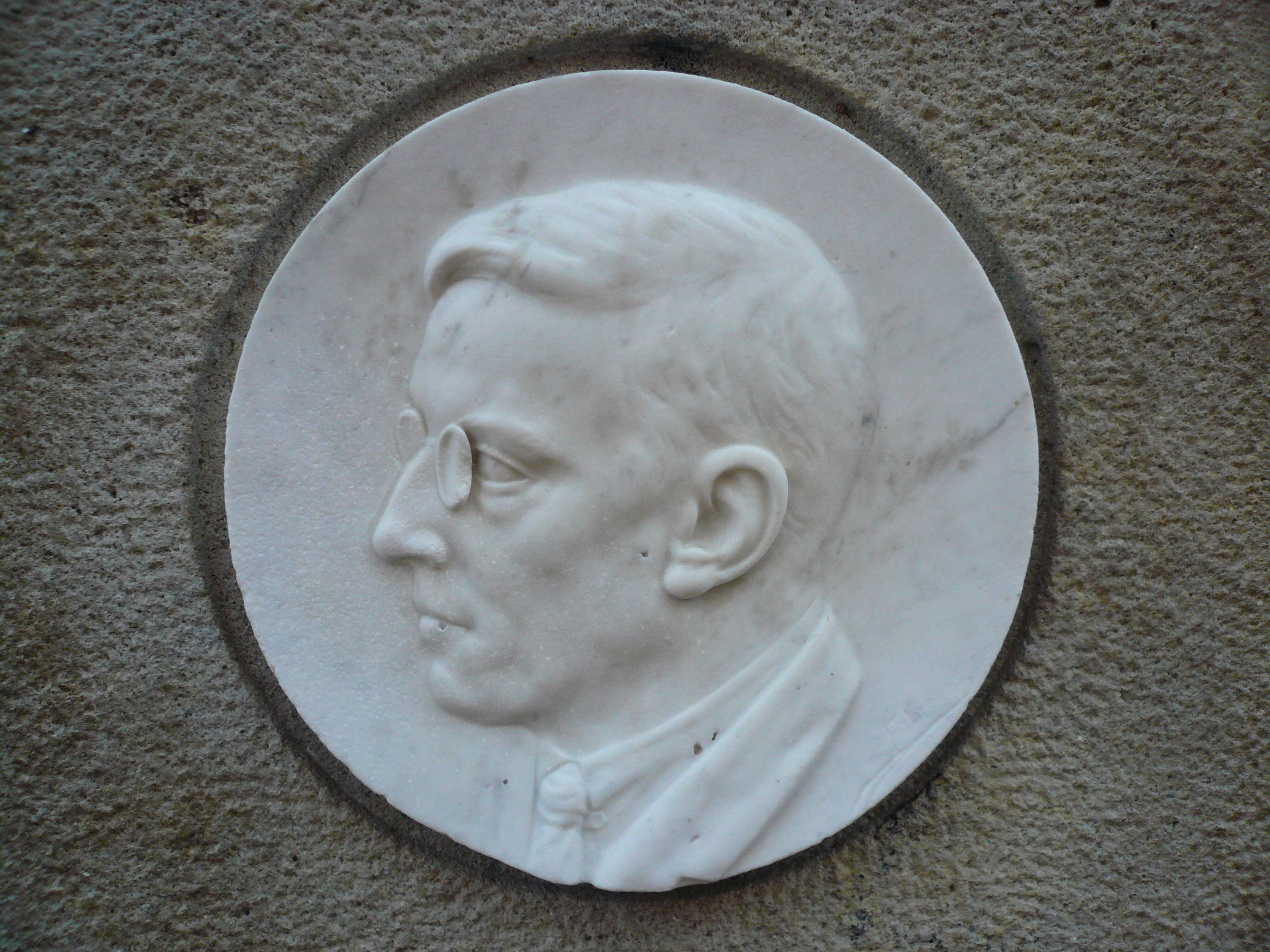 Joan Junceda by Alfons Pérez i Fàbregas in Rambla de Catalunya in Barcelona.